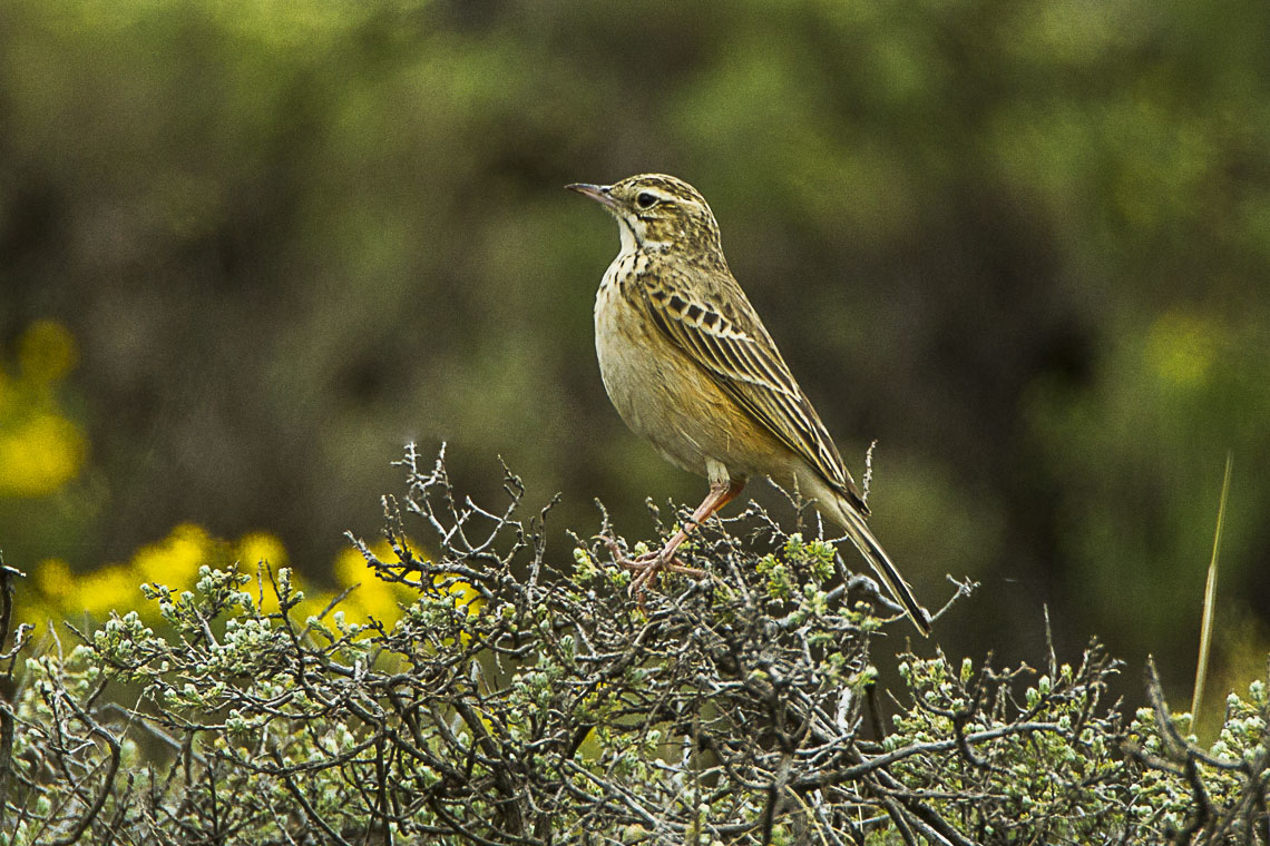 Mountain Pipit - Natal - South Africa_S4E7209